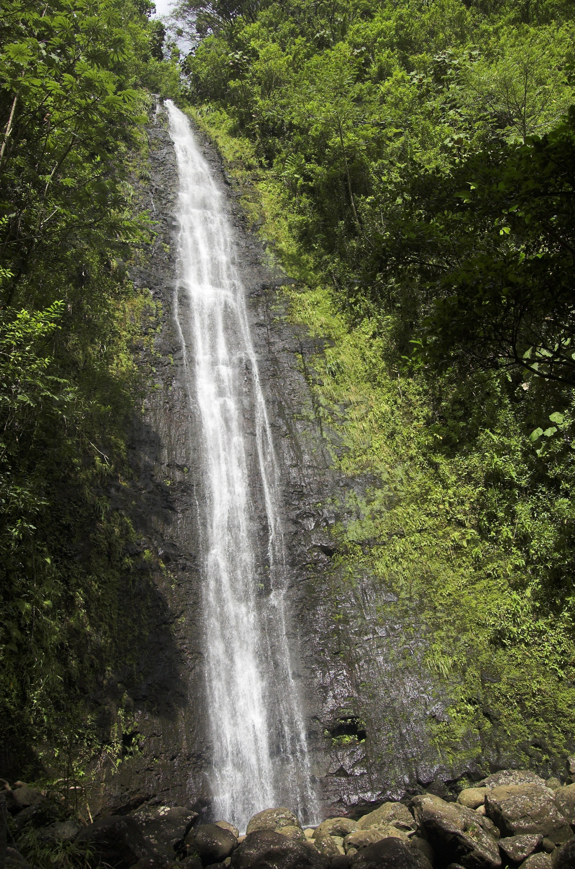 Manoa Falls, on the island of Oahu, in Hawaii. Photograph taken by me, Josh Thompson 02:08, 19 November 2006 (UTC).